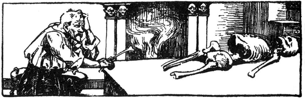 Illustration for 'Brother Lustig' in 'Grimm's Fairy Tales' - Wilhelm Stumpf (1901)